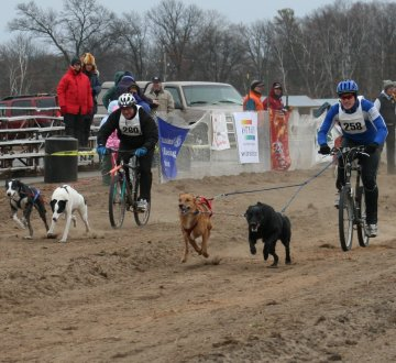 Photo taken by Angie Warnecke of Mike Warnecke and Pete Hindman racing at the East Meets West Dryland Challenge, Nov. 18, 2007. Photo taken by Angie Warnecke of Mike Warnecke and Pete Hindman racing at the East Meets West Dryland Challenge, Nov. 18, 2007.